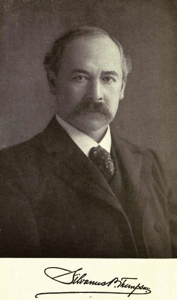 Picture of English scientist, Silvanus Thompson